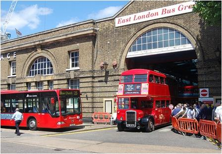 Preserved RT class bus and modern day MA class articulated bus, pictured outside Bow bus garage (code BW) during an open day. Bow garage belongs to the East London Bus & Coach Company (as does the MA class), which as the sign suggests, was at this time part of the East London Bus Group.